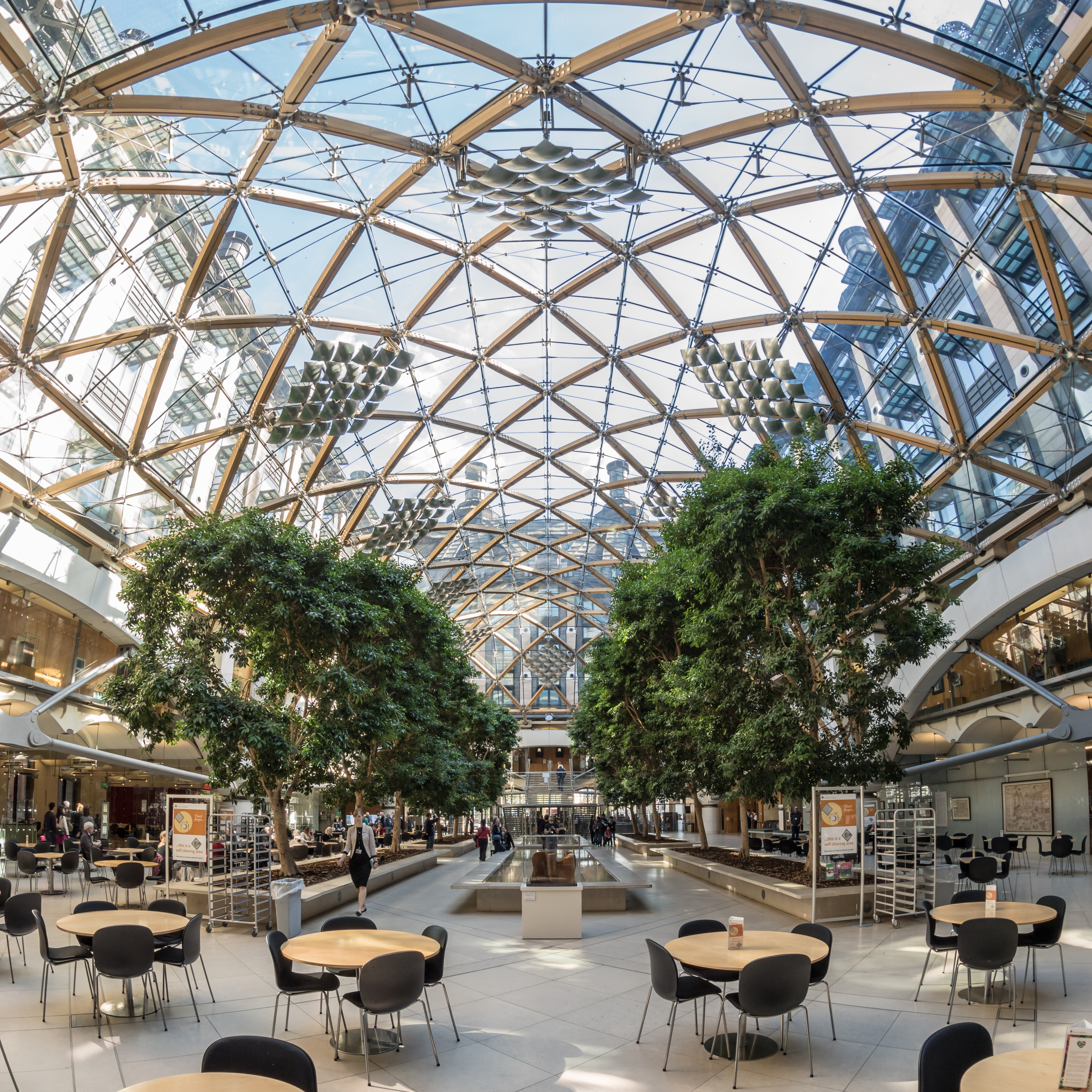 Portcullis House Interior Cafe 2015-09-19